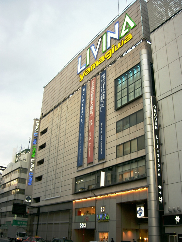 Yamagiwa Livina Shop, Akihabara, Tokyo, Japan